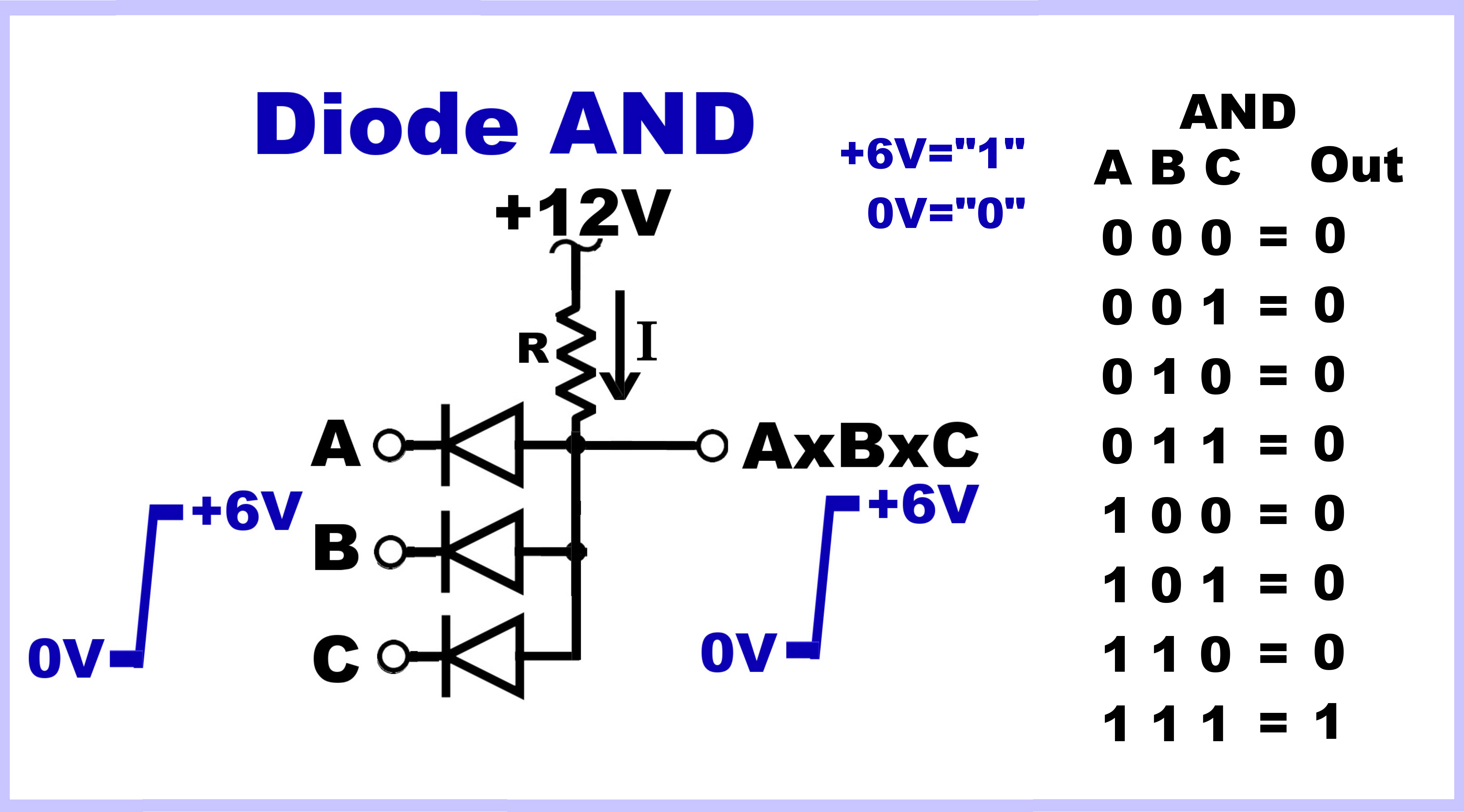 Diode AND with Ideal Diode